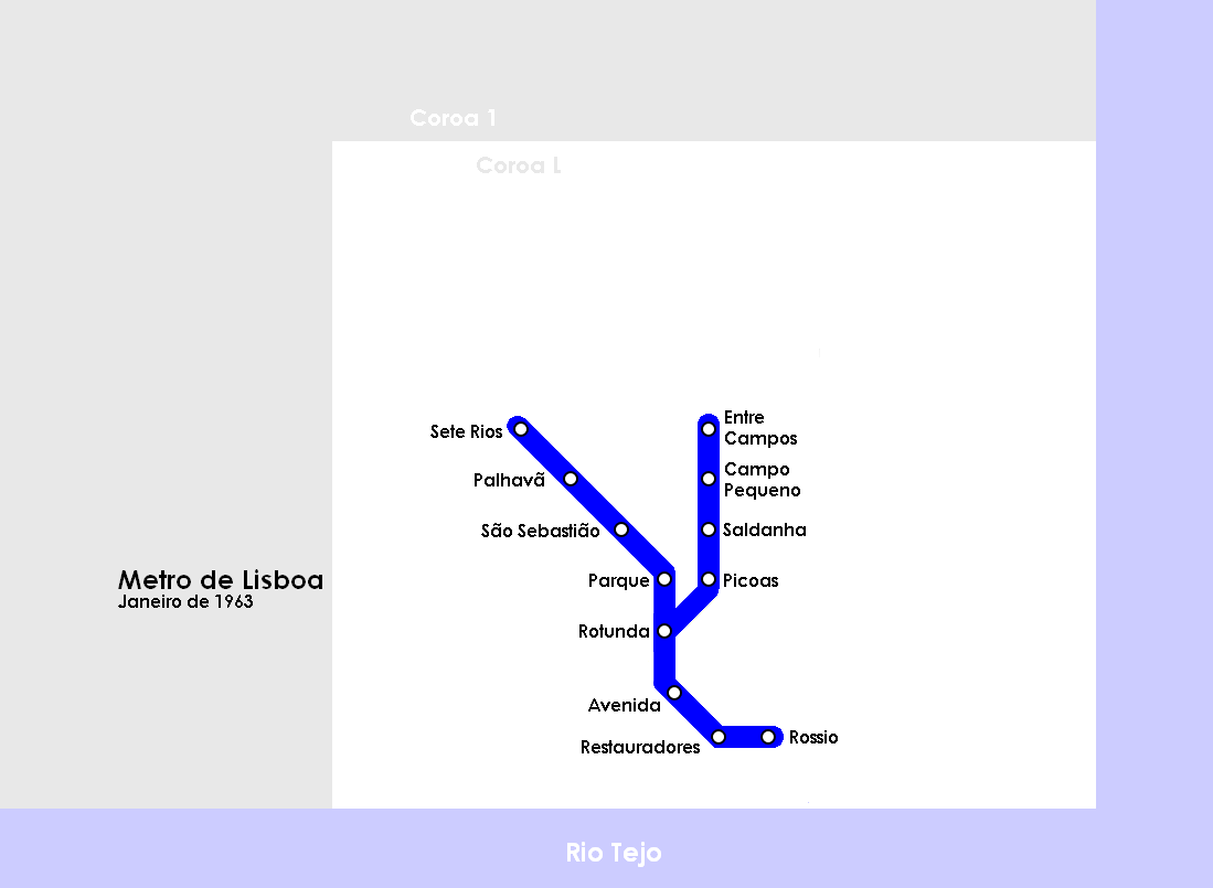 Map of Lisbon Metro in January 1963